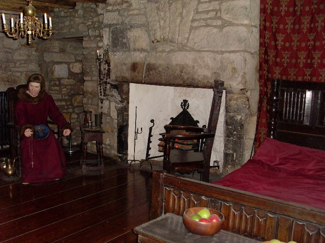 Inside the Provand's Lordship The interior of the house is very well preserved, and nowadays is a museum.